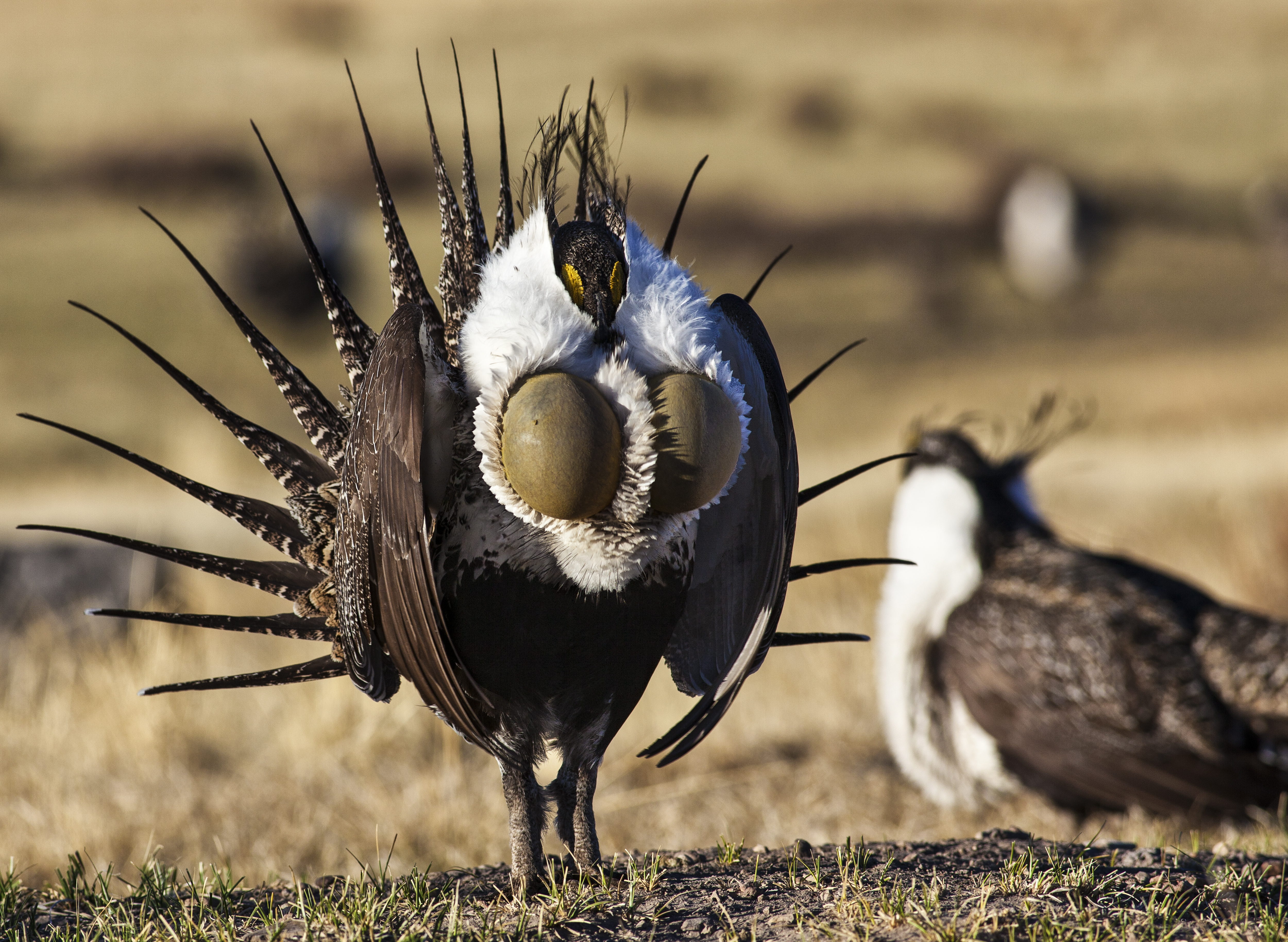 Greater sage-grouse (Centrocercus urophasianus) with its gular sacs inflated to attract mates during courtship display. Photos by Bob Wick, BLM